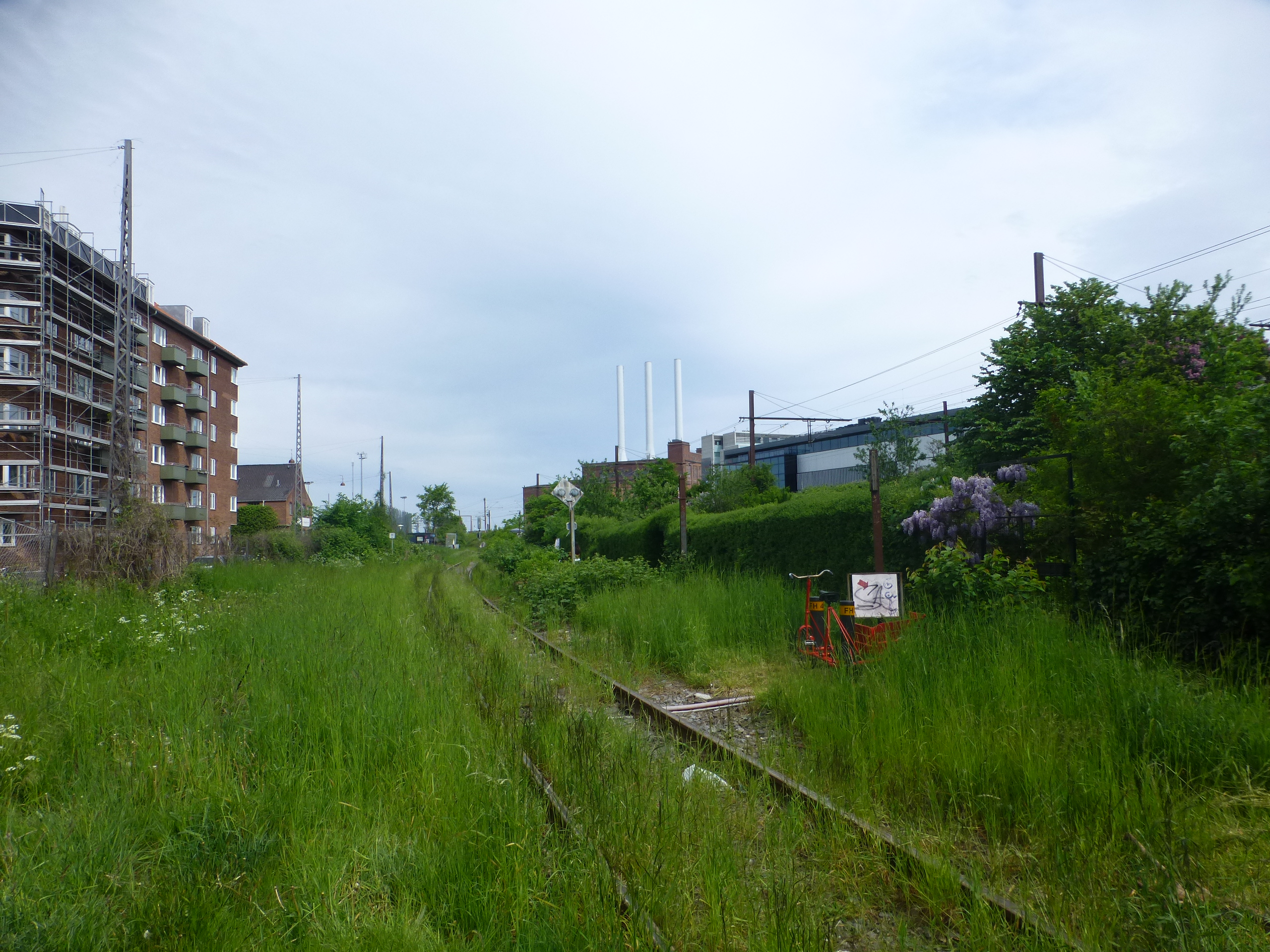 The railway line Frihavnsbanen between Østerport and Nørrebro in Copenhagen at the level crossing with Vordingborggade. The line is only used by a few heritage trains and other special trains.